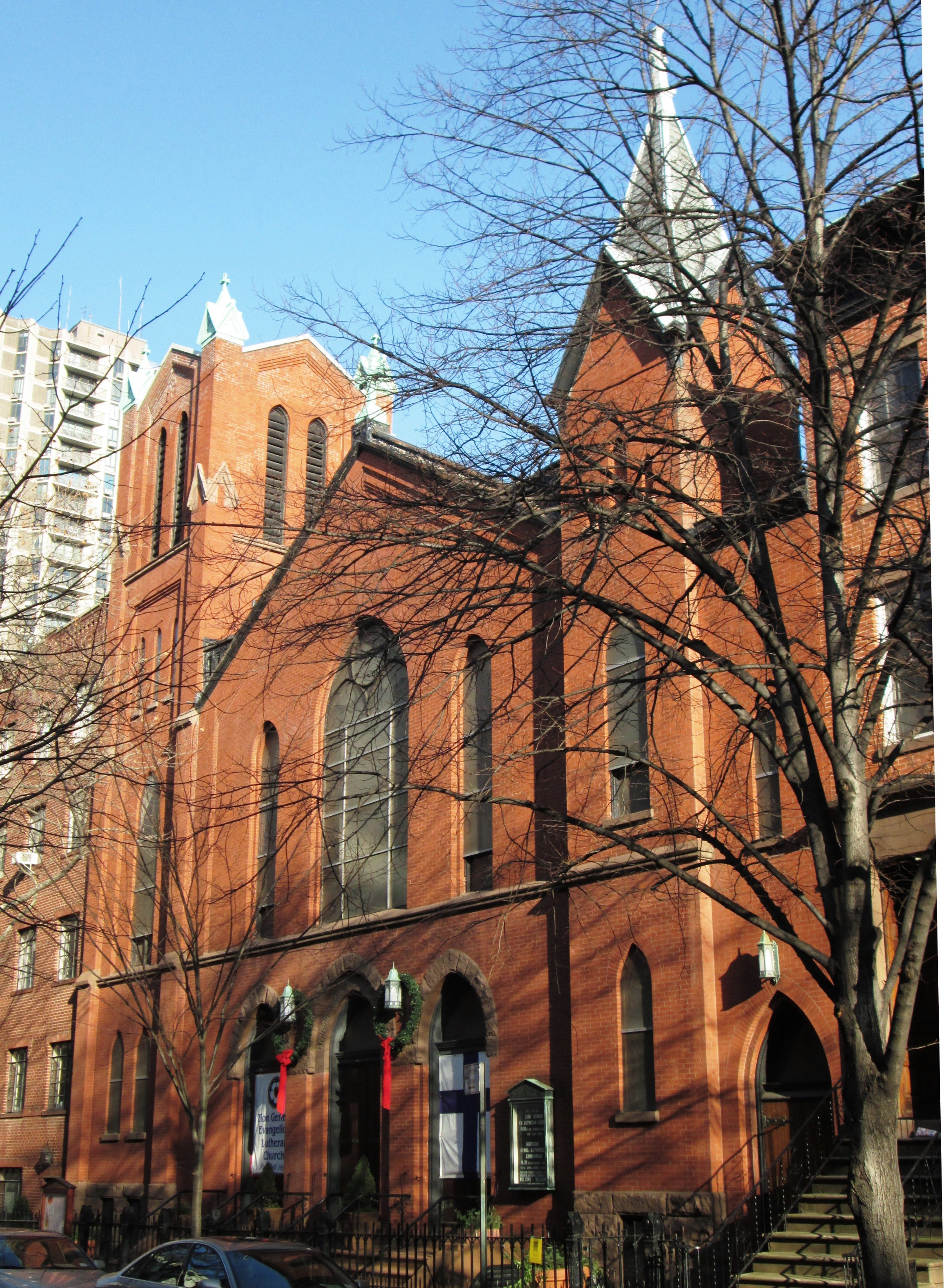 The Zion German Evangelist-Lutheran Church at 125-131 Henry Street between Clark and Pierrepont Streets in the Brooklyn Heights neighborhood of Brooklyn, New York, was built in 1840 as the Second Reformed Dutch Church, but by 1851 had become a dance hall. The ZGELC congregation has been in existence since 1855 and bought the church building in 1856 for $14,500. It is located within the Brooklyn Heights Historic District. (Sources: AIA Guide to NYC (5th ed.) and ZGELC website)